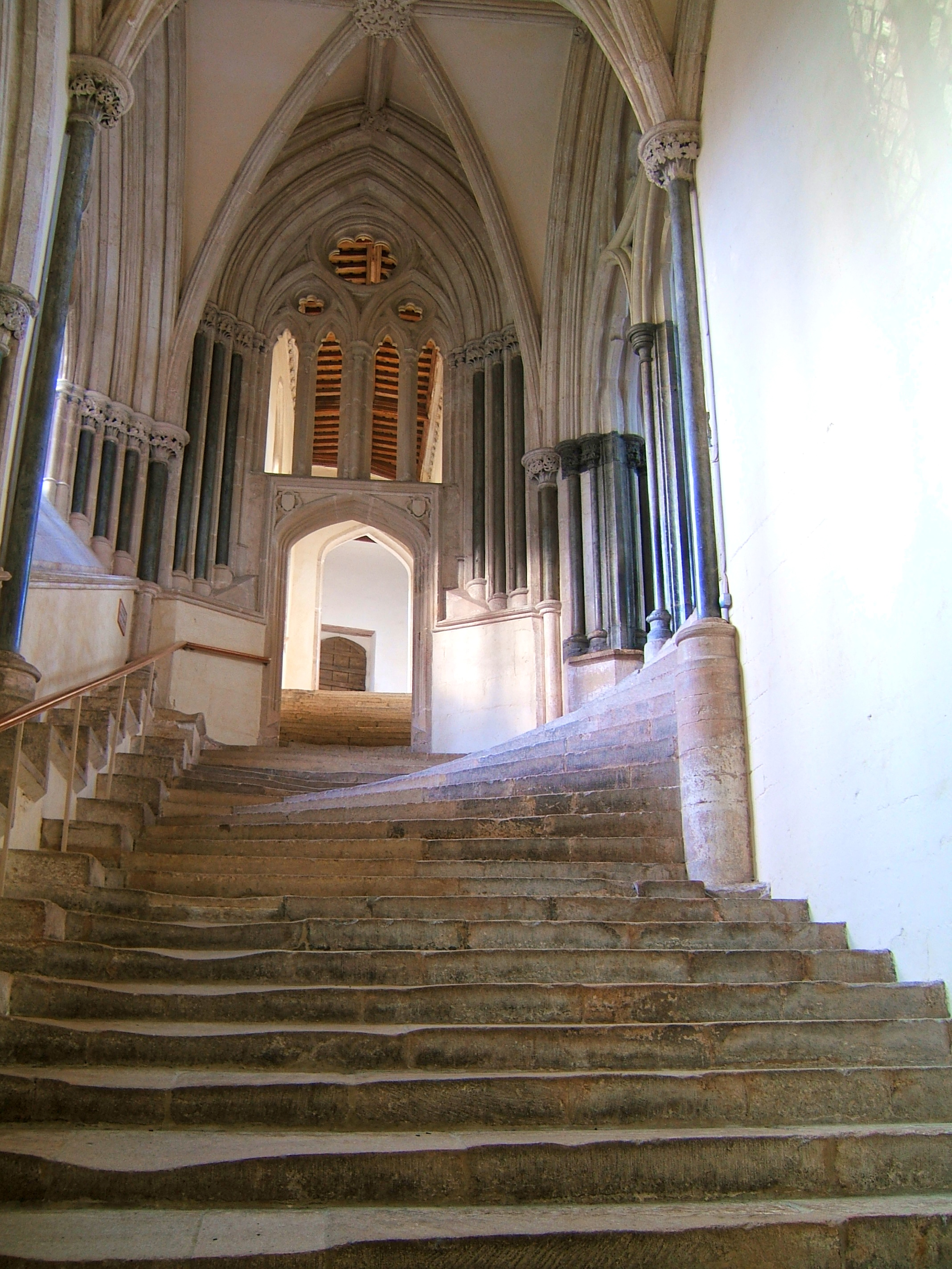 Wells Cathedral Stairs to the Chapter House